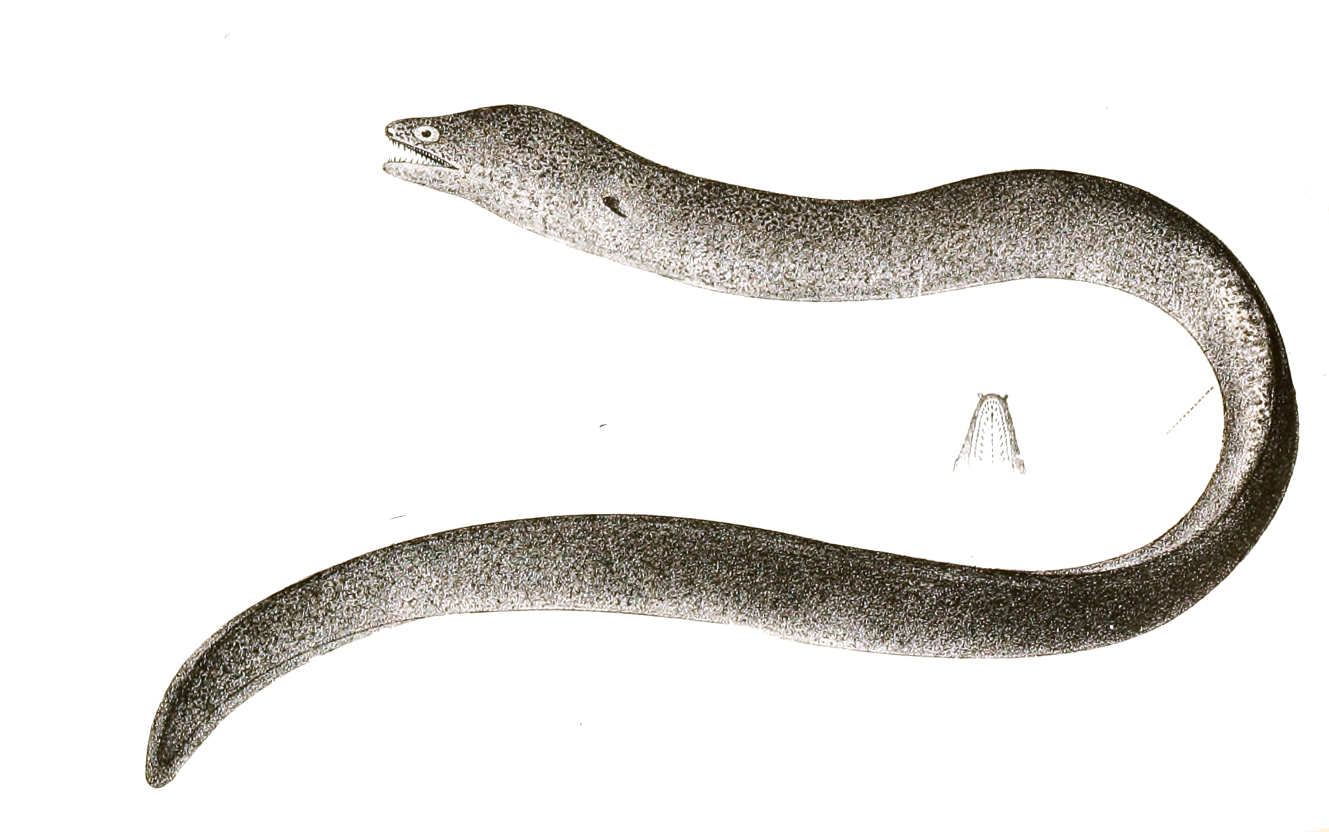 The species names / identity need verification - original names from plate are included here. The original plates showed the fishes facing right and have been flipped here. Gymnomuraena marmorata